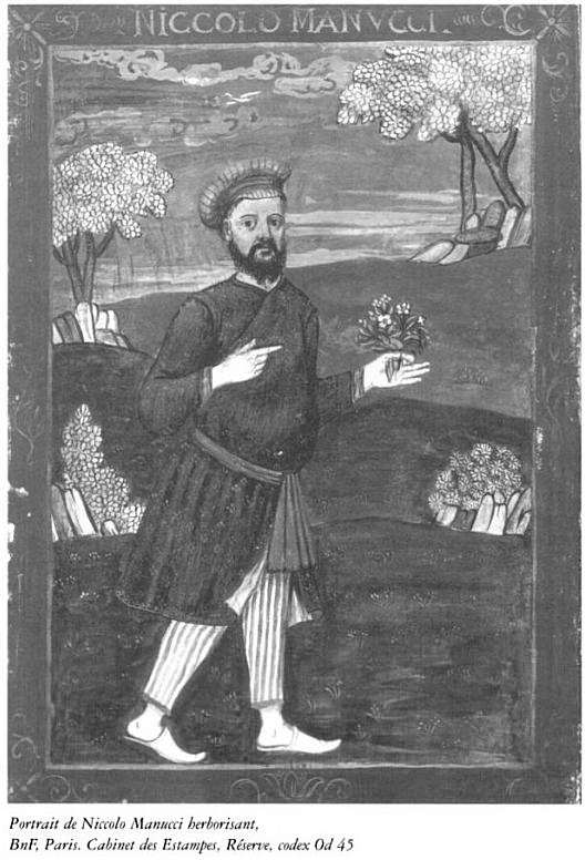 Niccolò Manucci (Venice, 19 avril 1638 – Chennai, 1715)